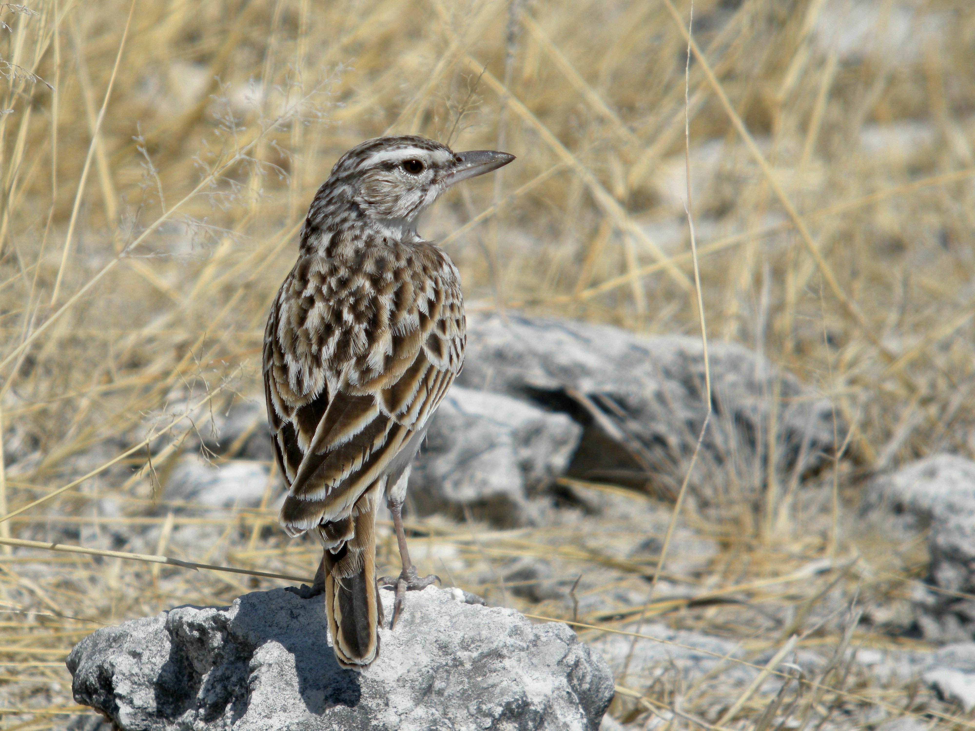 Sabota Lark (Mirafra sabota waibeli) Swarowski 80 HD 30 X, Coolpix P5100 (Adapter DCB)